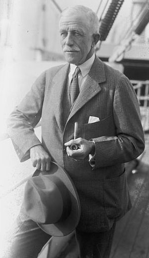 Photograph of Arthur Whitney (New Jersey politician).